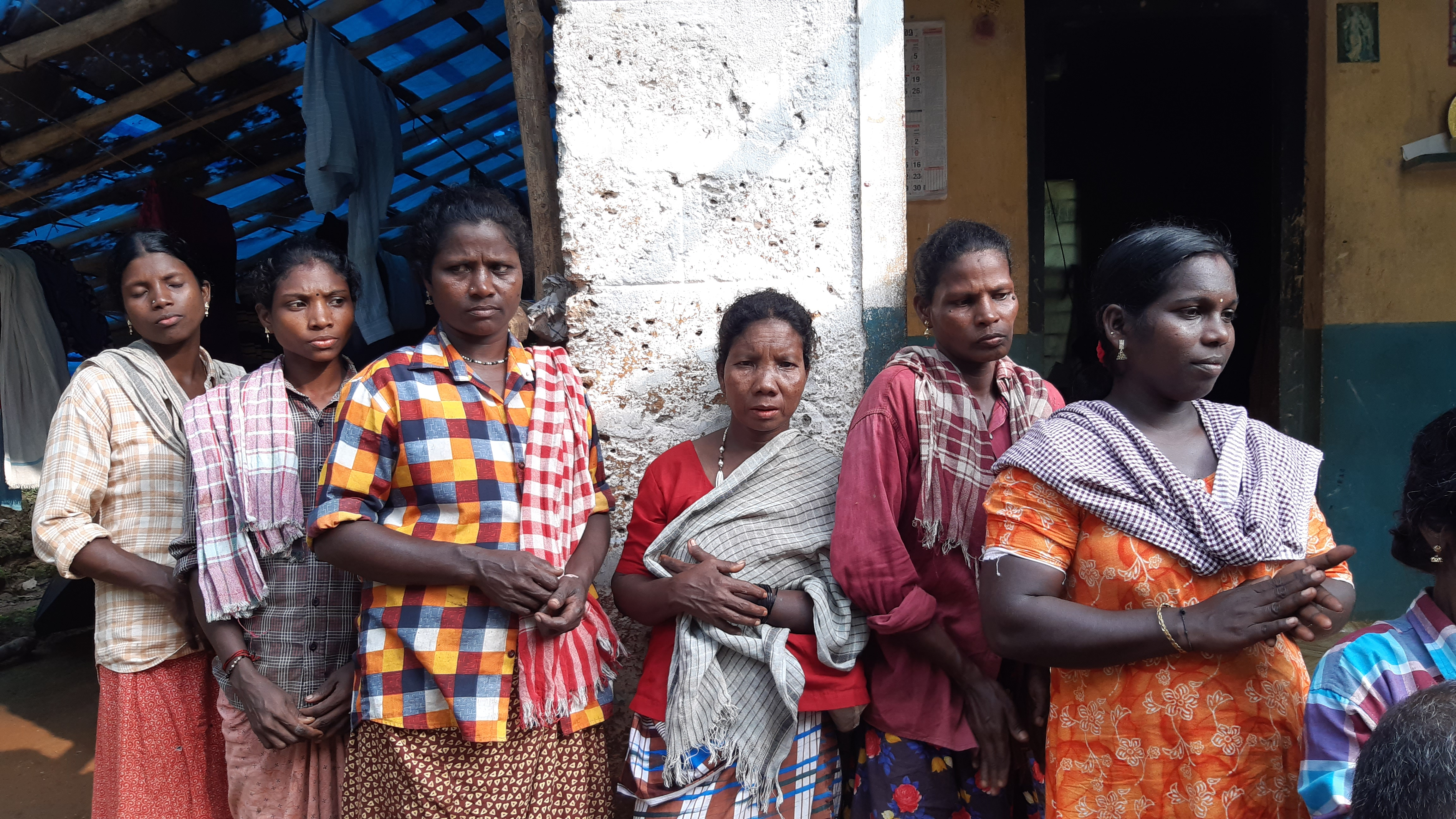 These people belong to Paniya community of Kerala